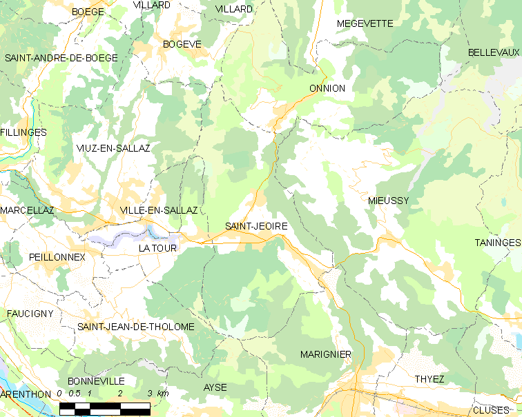 Map of French municipality Saint-Jeoire